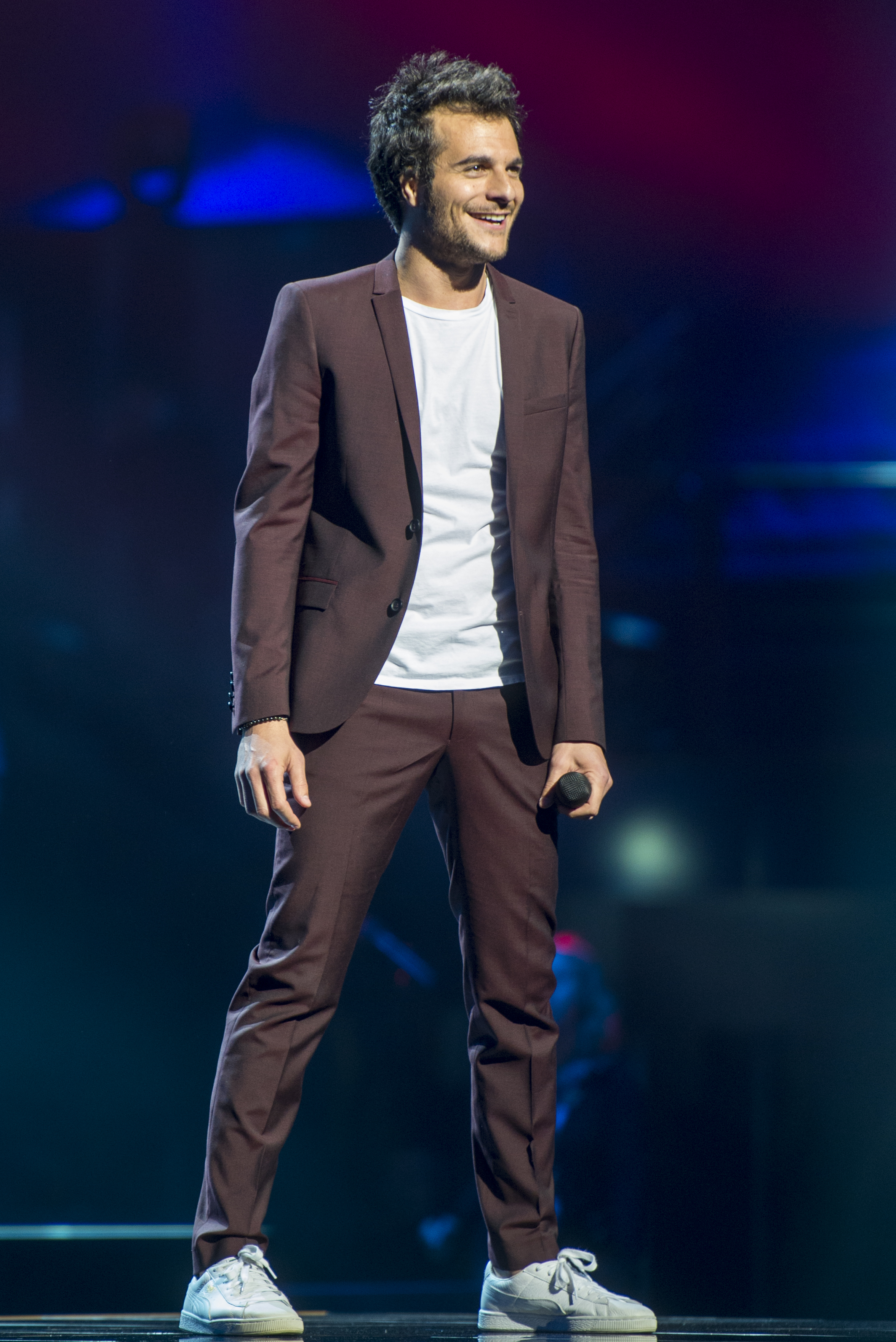 Amir representing France with the song "J'ai cherché" during the first dress rehearsal of the final of the Eurovision Song Contest 2016 in Stockholm. (Help translate this text)